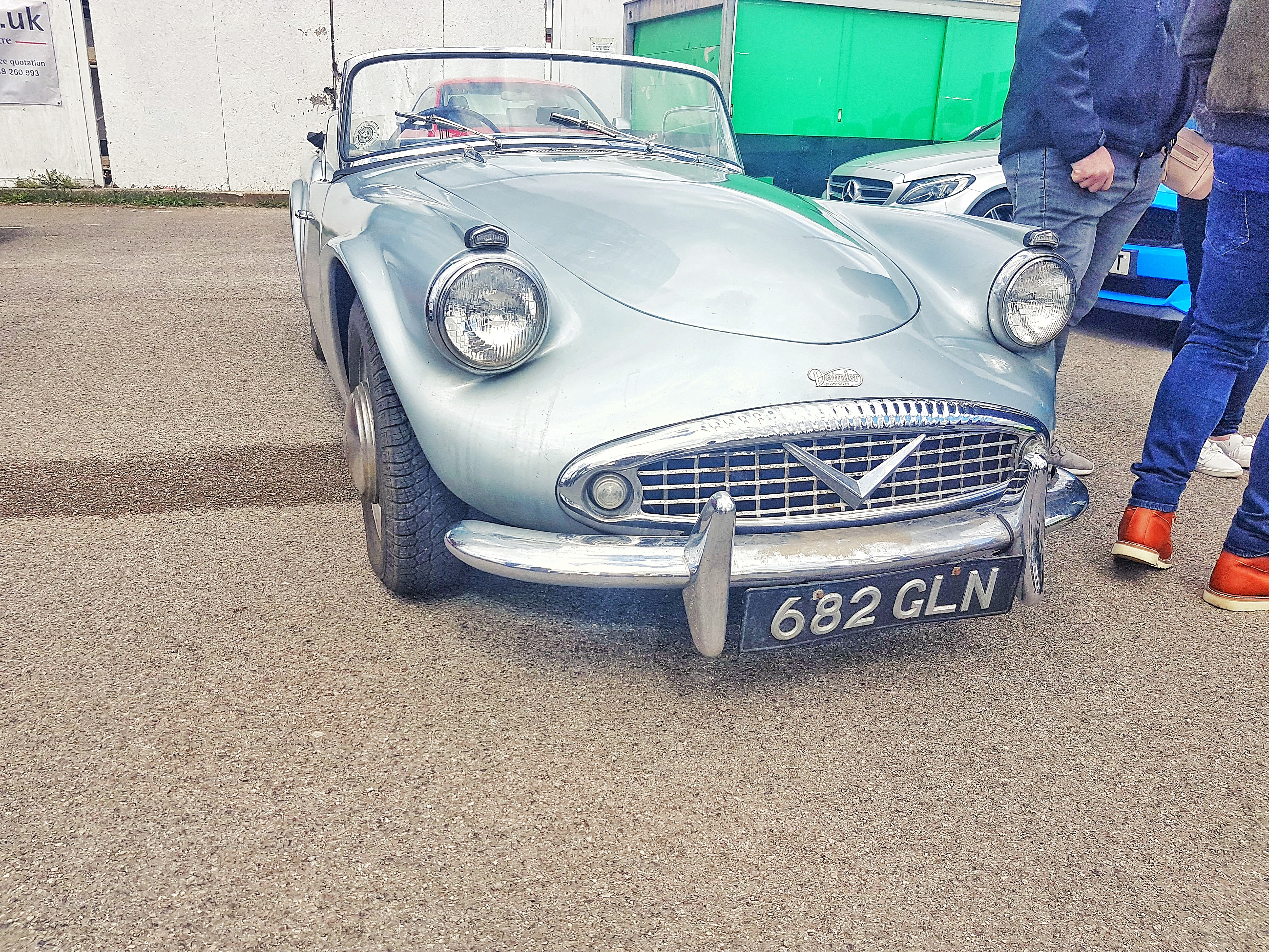 Spotted at the April Liverpool Cars and Coffee